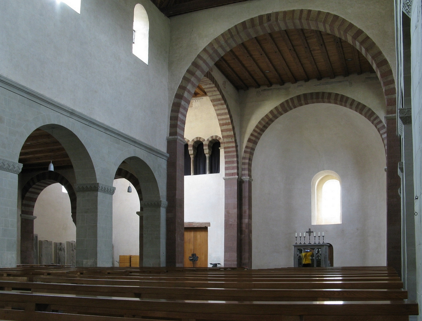 Church of the monastery Reichenau, nave